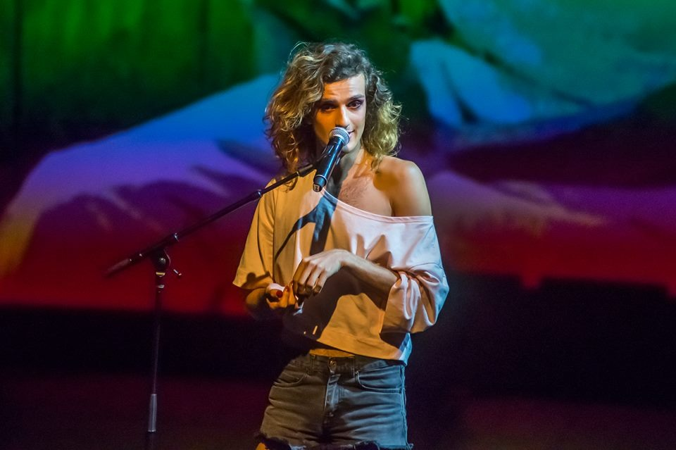 Marina em cena no espetáculo "Paris is burning - AO VIVO" com a Cia. Hiato no SESC Pompéia